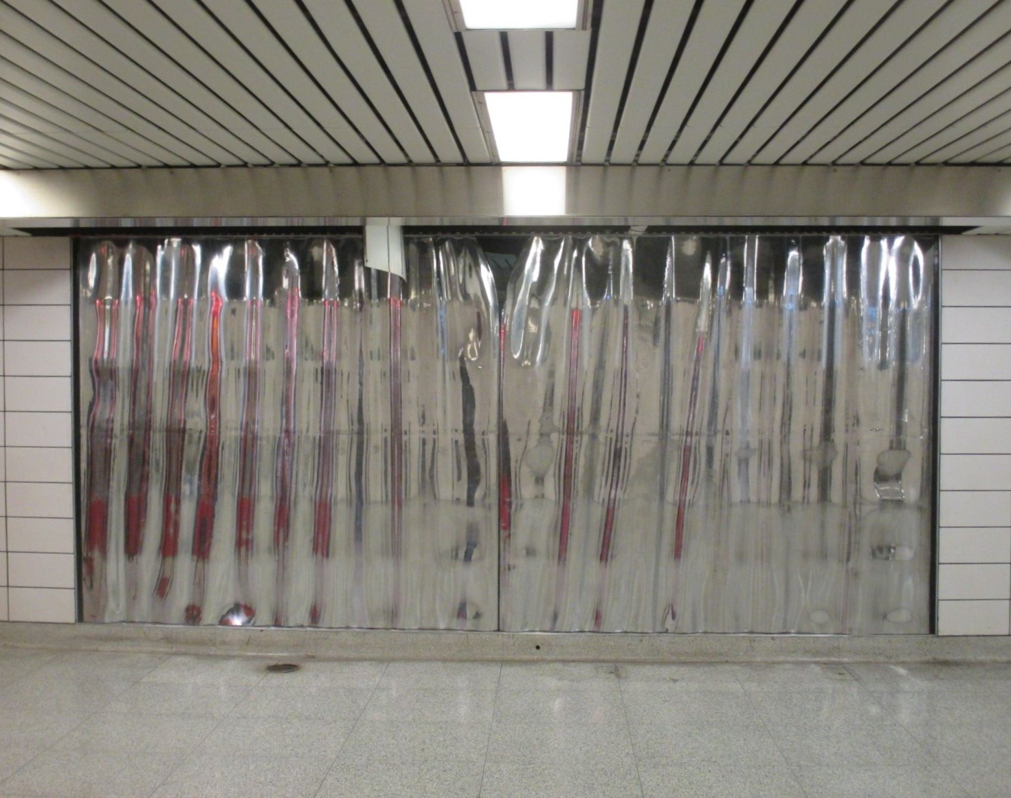 Artwork in Coxwell station on Toronto subway Line 2 Bloor–Danforth: "Forwards and Backwards" by Jennifer Davis and Jon Sasaki consisting of aluminum and mirrors.